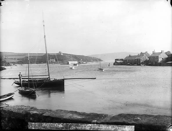 1 negative : glass, dry plate, b&w ; 16.5 x 21.5 cm.